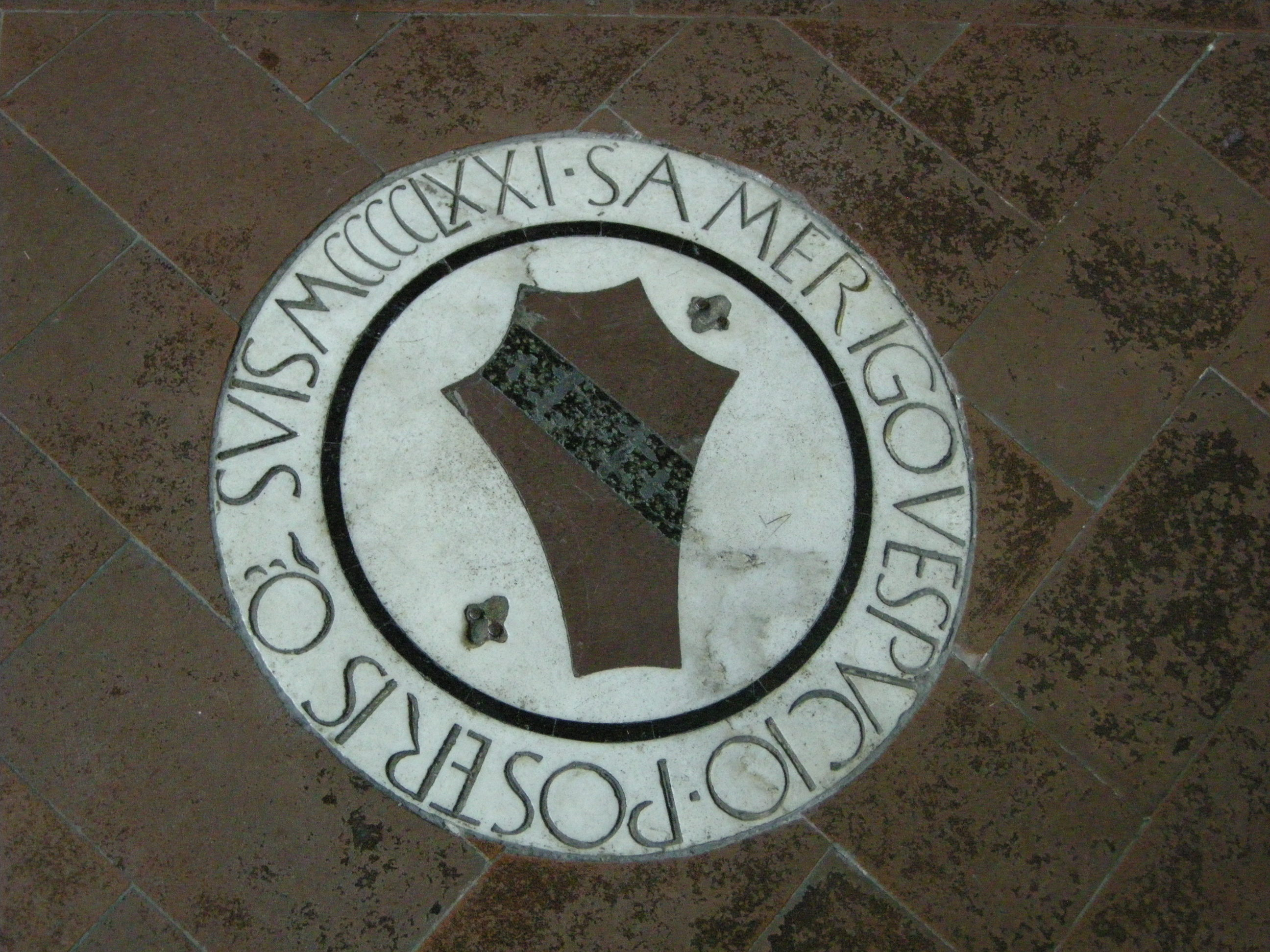 Tomb of Amerigo Vespucci, died 1471, actually the grandfather of the famous navigator. Includes coat of arms on Italian "horse-head" shaped shield.